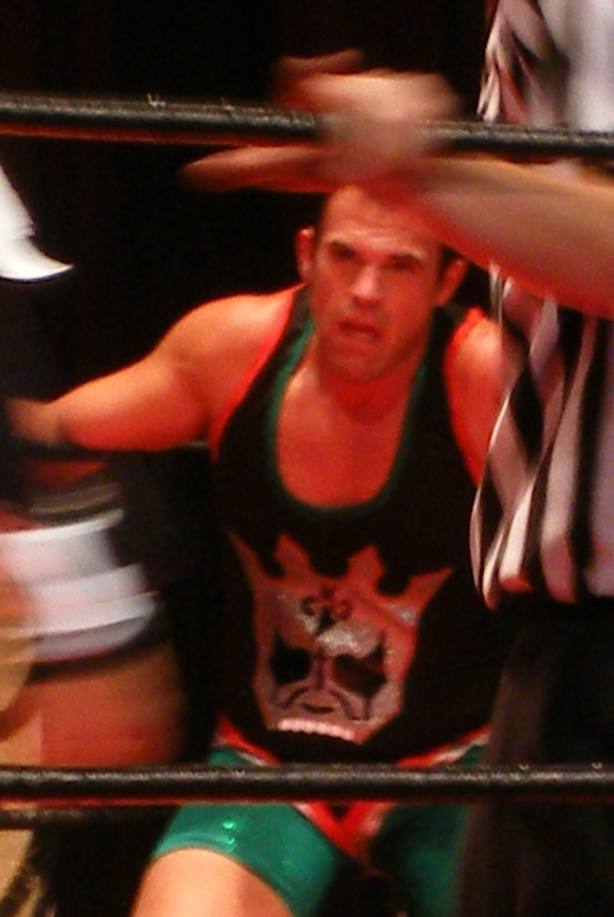 Conrad Kennedy III during a match at Revolucha IV on October 24, 2007. Cropped from original.